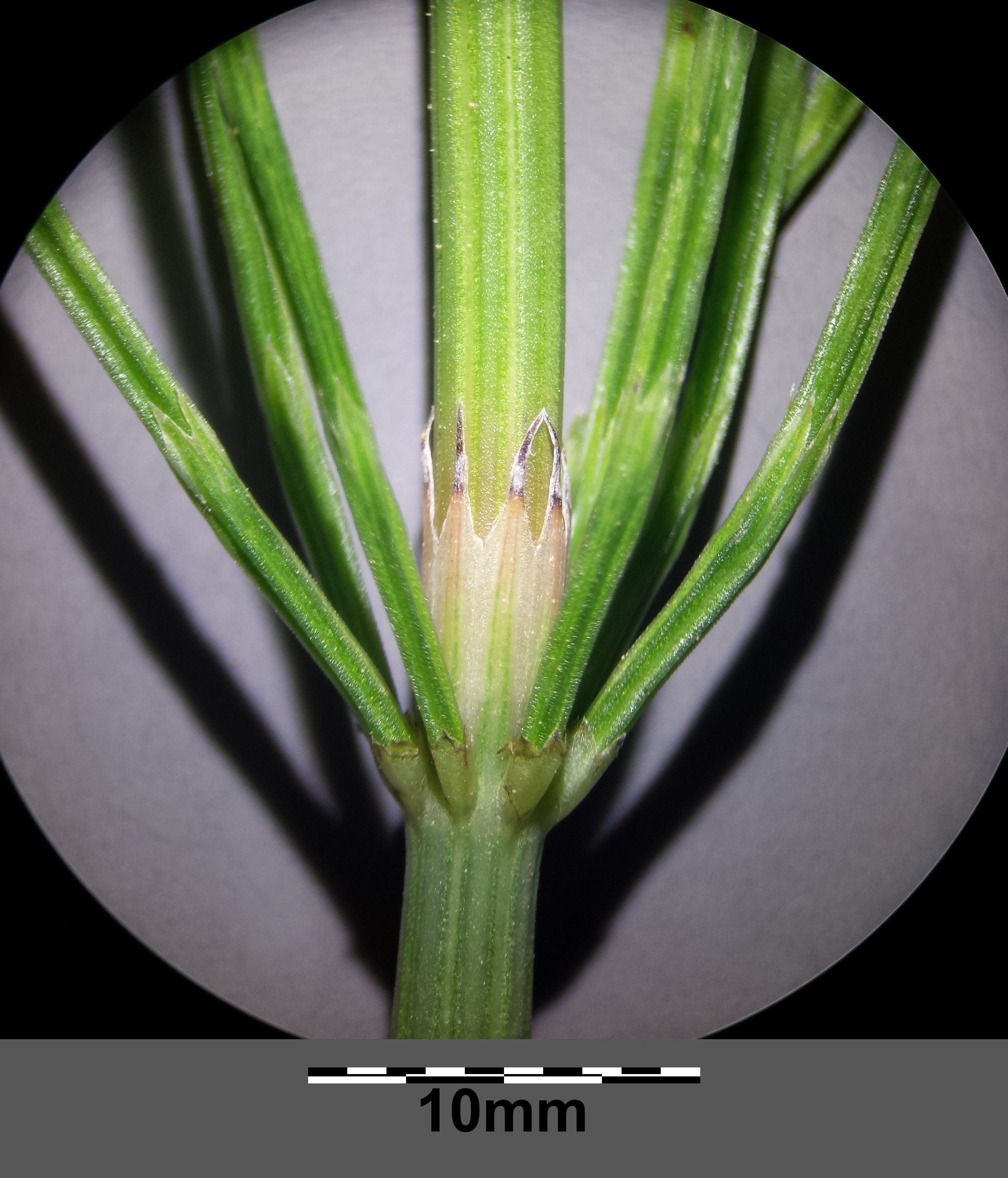 Stem with branches (sterile stem) Taxonym: Equisetum arvense subsp. arvense ss Fischer et al. EfÖLS 2008 ISBN 978-3-85474-187-9 Location: near Niederhollabrunn, district Korneuburg, Lower Austria - ca. 350 m a.s.l. Habitat: field